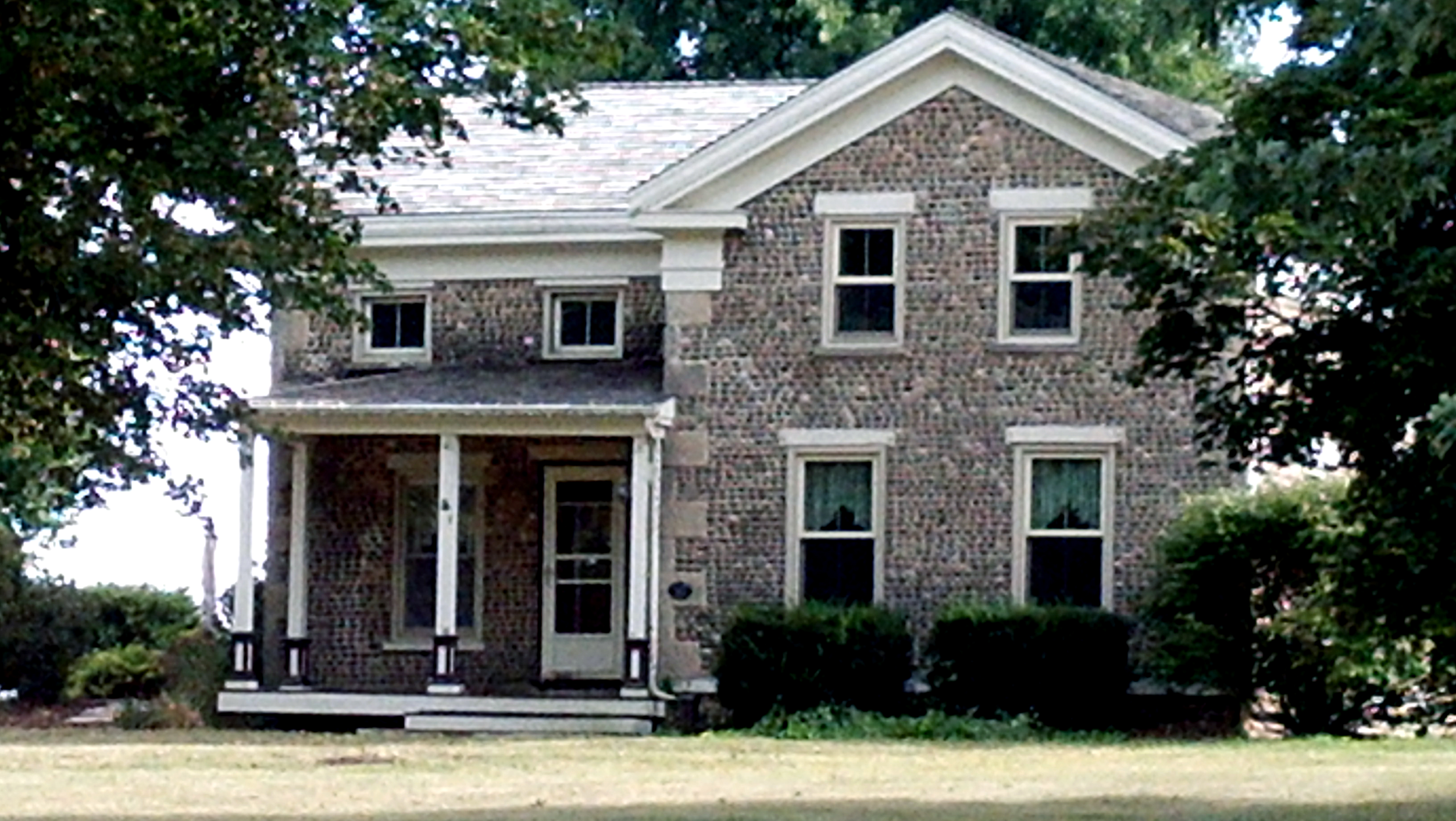 Cross-gabled Samuel S. Jones Cobblestone House